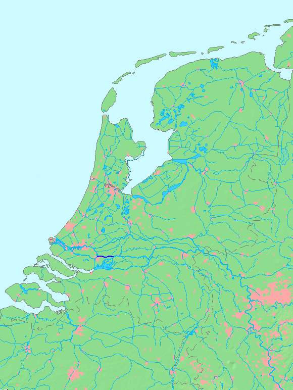 Location of a waterway (river/canal) in the Netherlends